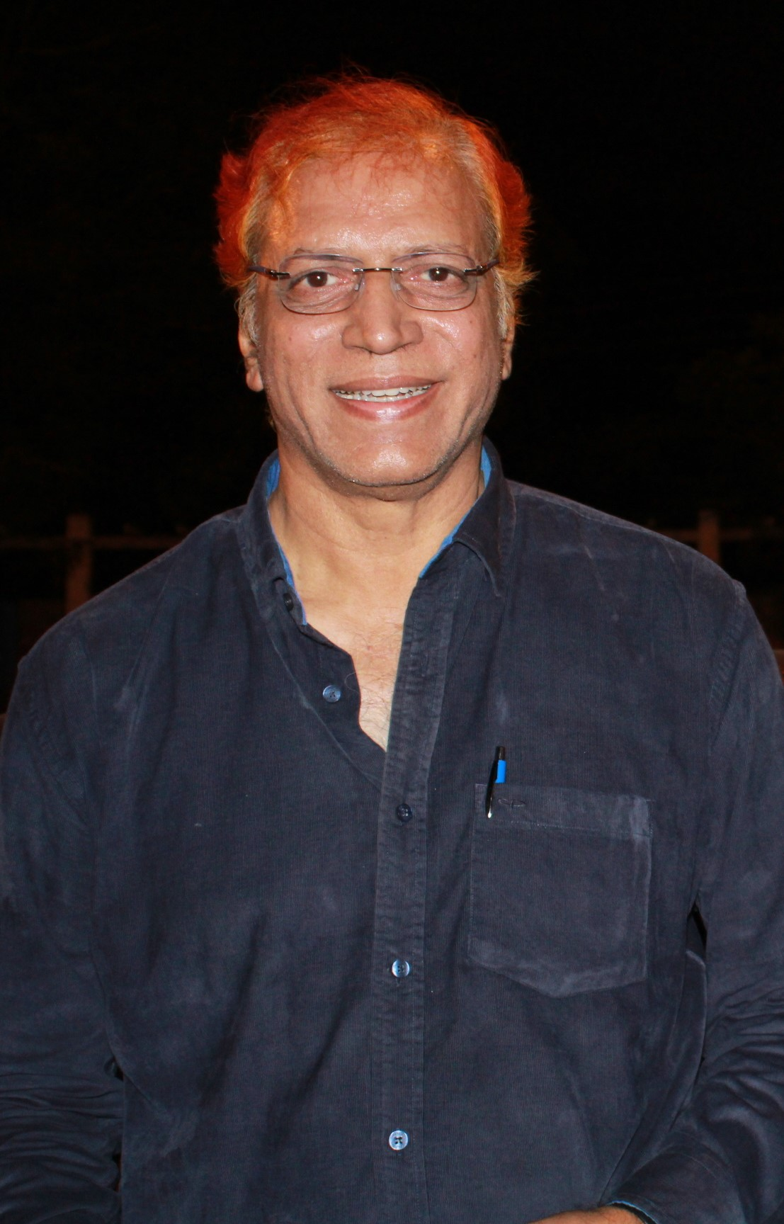 B Narasinga Rao, Telugu Film Director